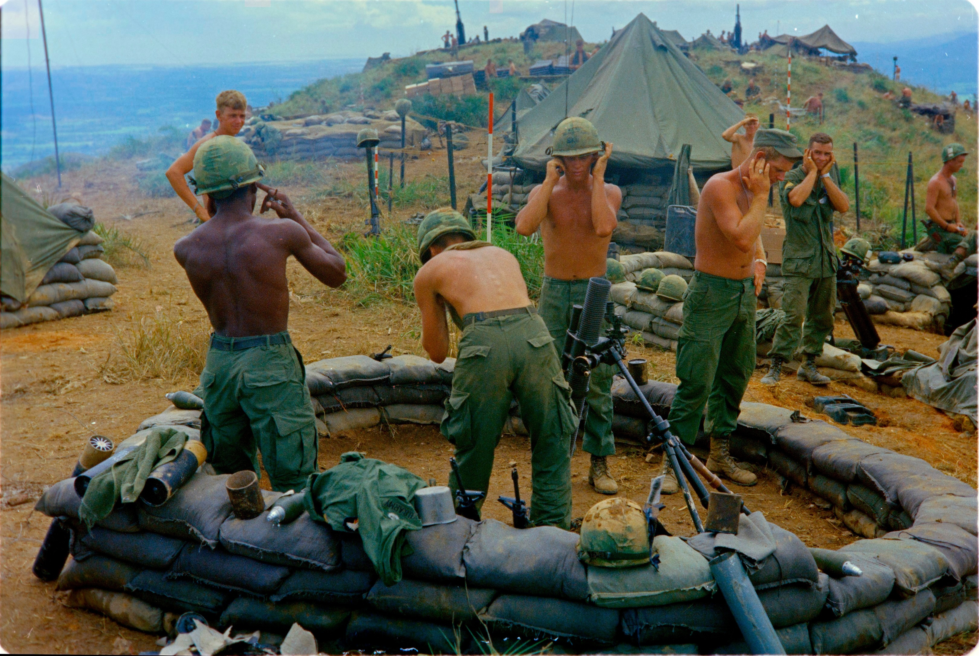 From a mountain top, the crew of the 81mm mortar section, 2nd Battalion, 327th Infantry, 1st Brigade, 101st Airborne Division fired mortar rounds at Viet Cong targets. The mortar crew provided fire support for other 327th infantry units conducting search and destroy missions. The 327th was participating in Operation “Wheeler” in areas around Tam Ky, Republic of Vietnam.